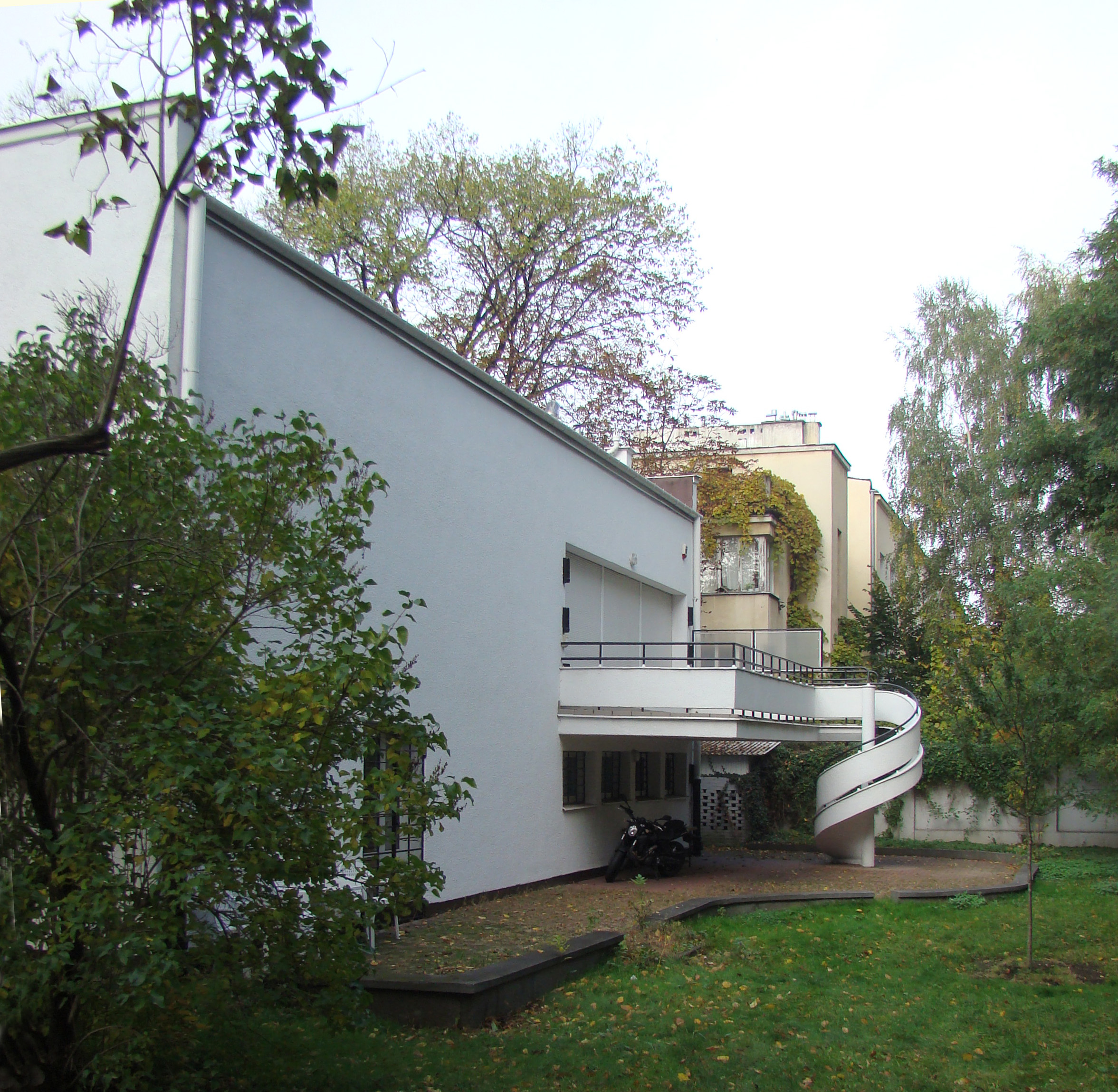 Villa Łepkowski Warsaw 1934-35 architects Korngold&Lubiński